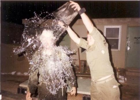 Soldier pouring water on peer when received sergeant rank